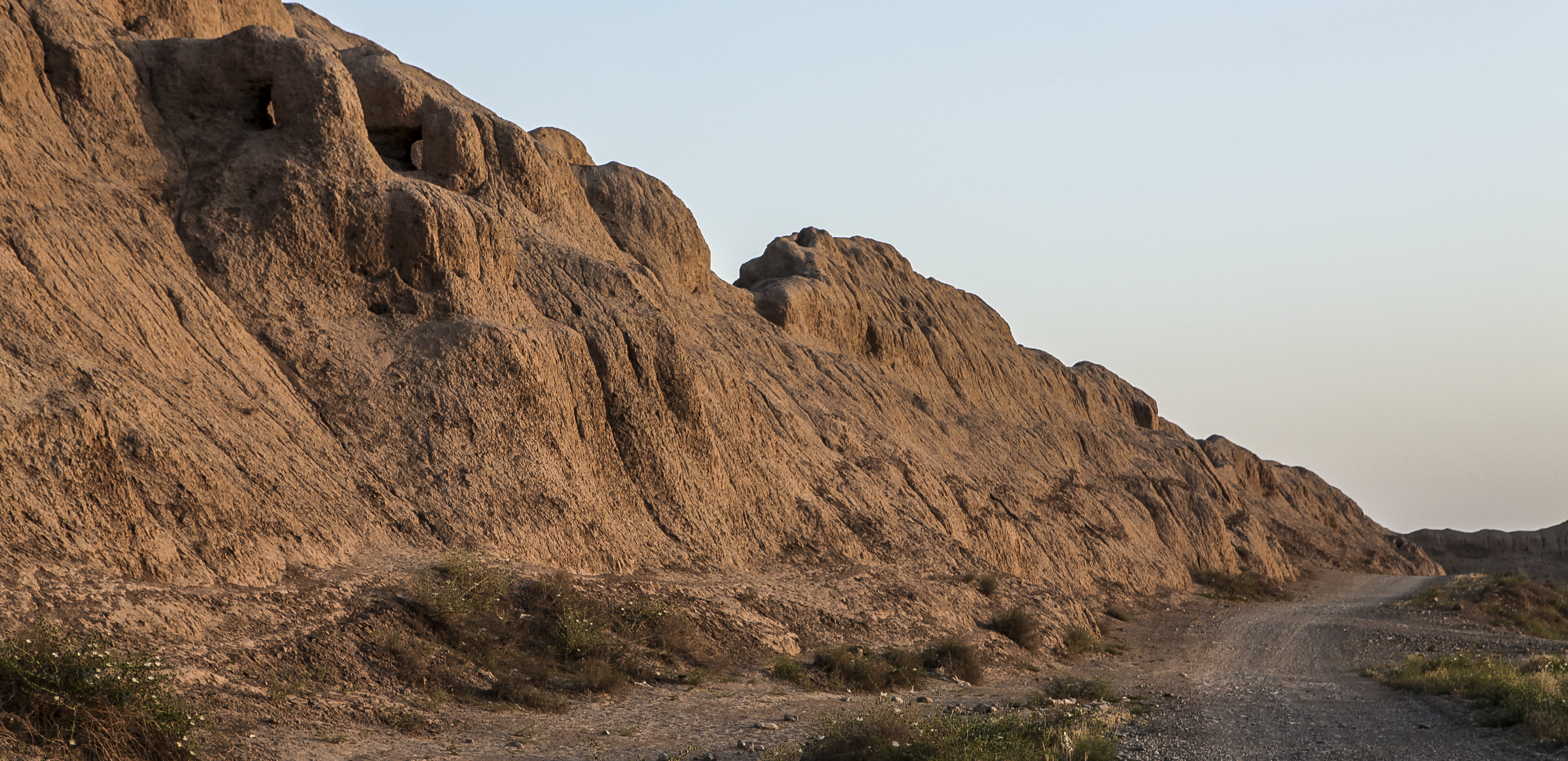 Tehran, Iran, Iraj Castle. Iraj Castle is located to the north-east of Varamin and near Ja'far Abad in north of Iran. Nowadays main gate remains. Iraj Castle is one of the significant castles of adobe with a height of 50 feet, an area of 200 hectares. It was constructed during the Sassanid Empire. This rectangular structure is made of mud and sun baked bricks. Dimensions: 1440 m x 1280 m. (Wikipedia)